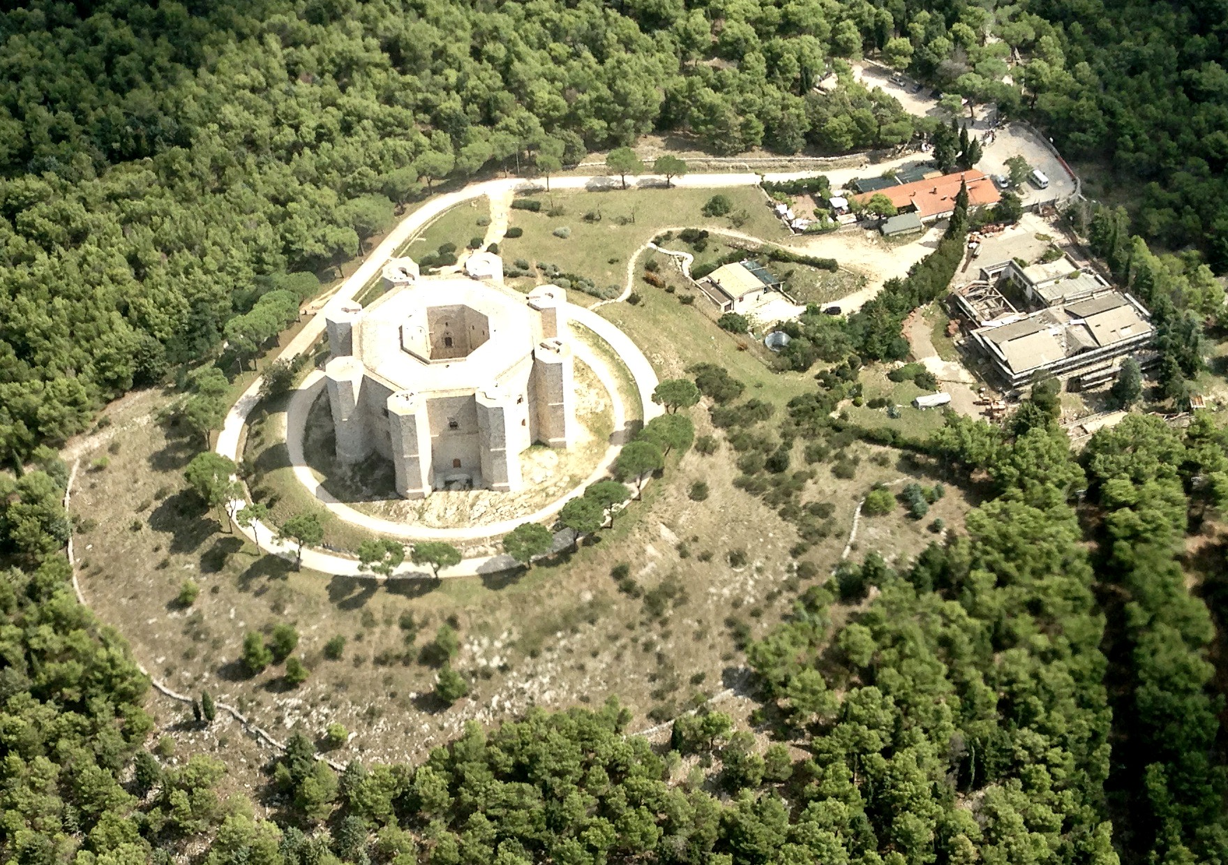 Castel del Monte from above